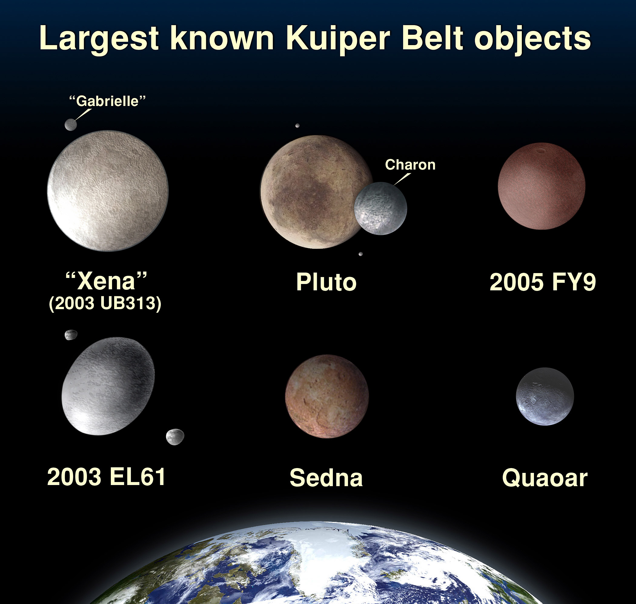 2003 UB313 compared to Pluto, 2005 FY9, 2003 EL61, Sedna, Quaoar, and Earth. Credit of NASA, ESA, and A. Feild (STScI).